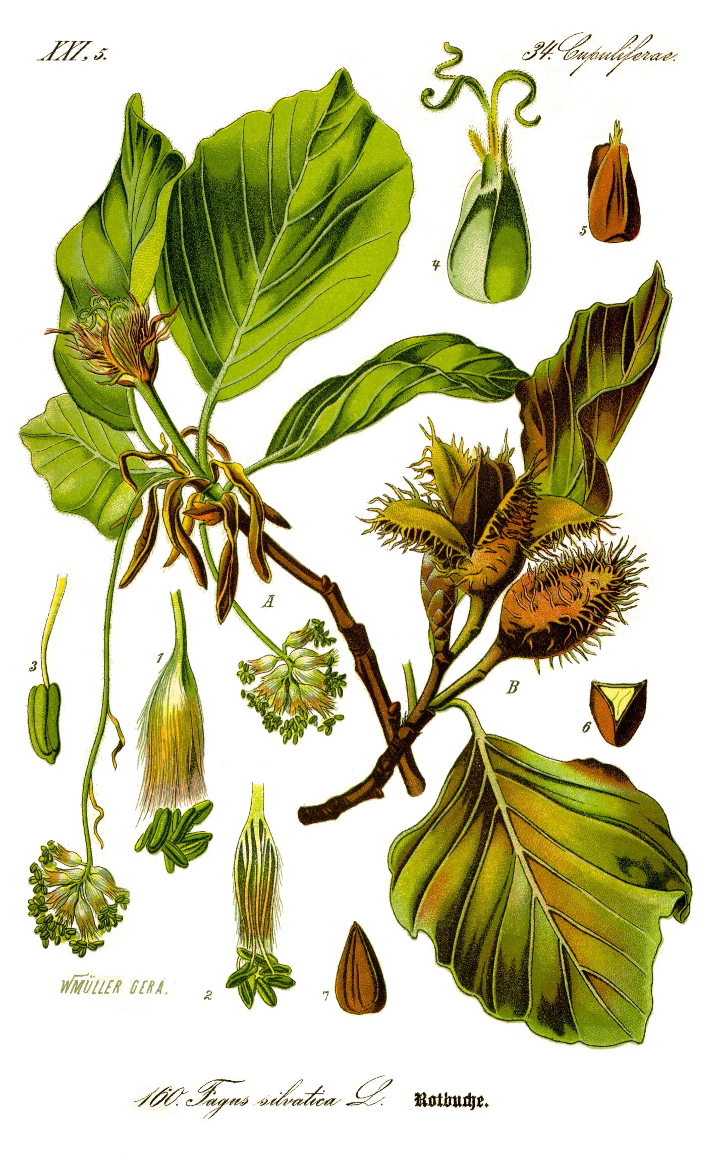 Clean version of Image:Illustration_Fagus_sylvatica0.jpg Name Fagus sylvatica Family Fagaceae